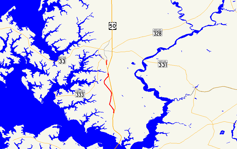 Map of Maryland Route 565